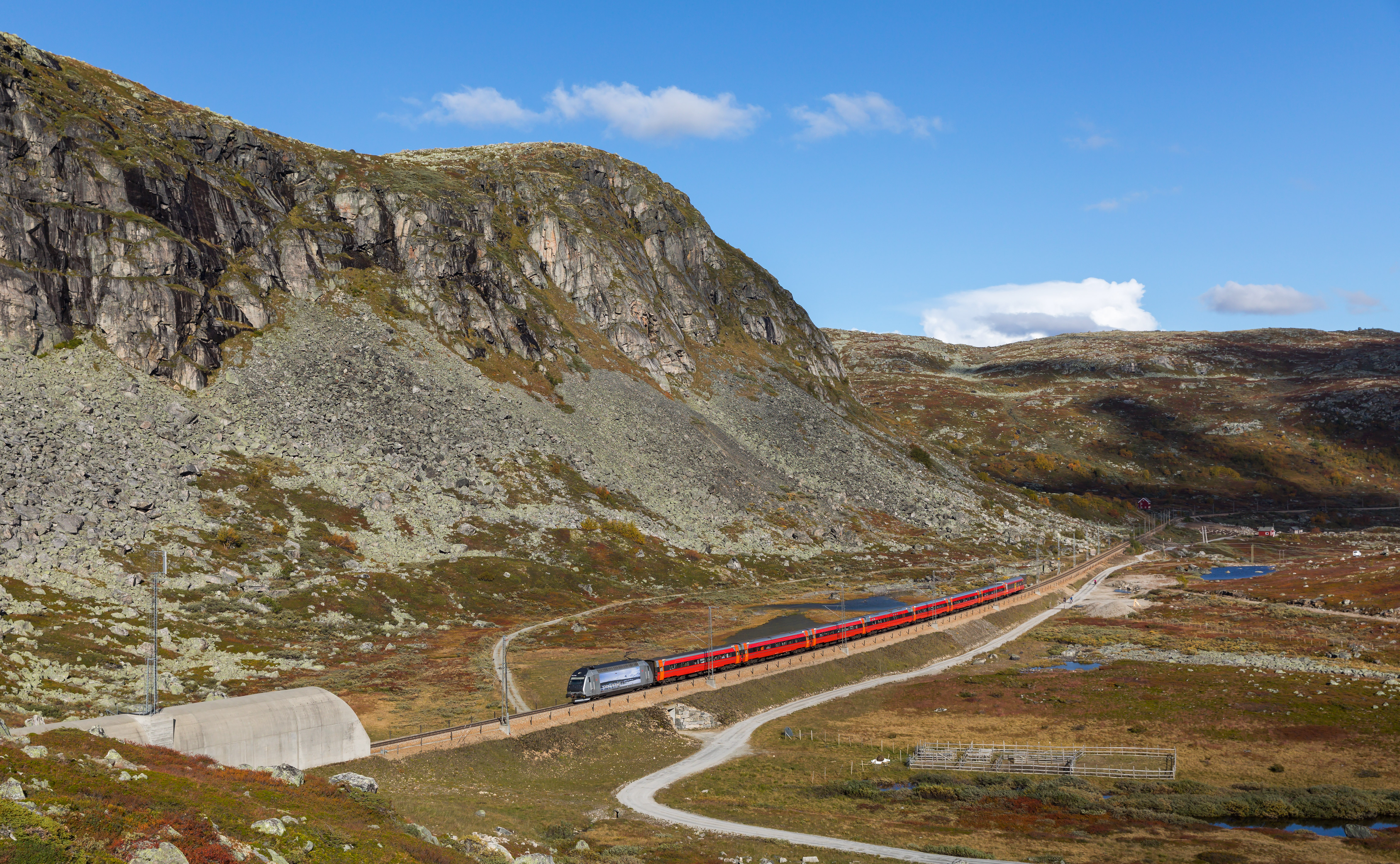 This Regiontog Oslo - Bergen has just reached the rebuilt part of the line across the Hardangervidda. El 18 2245 quickly accelerates the B7 coaches (with a B5 at the end) to 160 km/h and is about to enter the Tunga tunnel. Taken near Haugastøl, Norway.